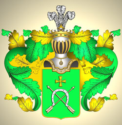 Coat of Arms of Verhovsky family